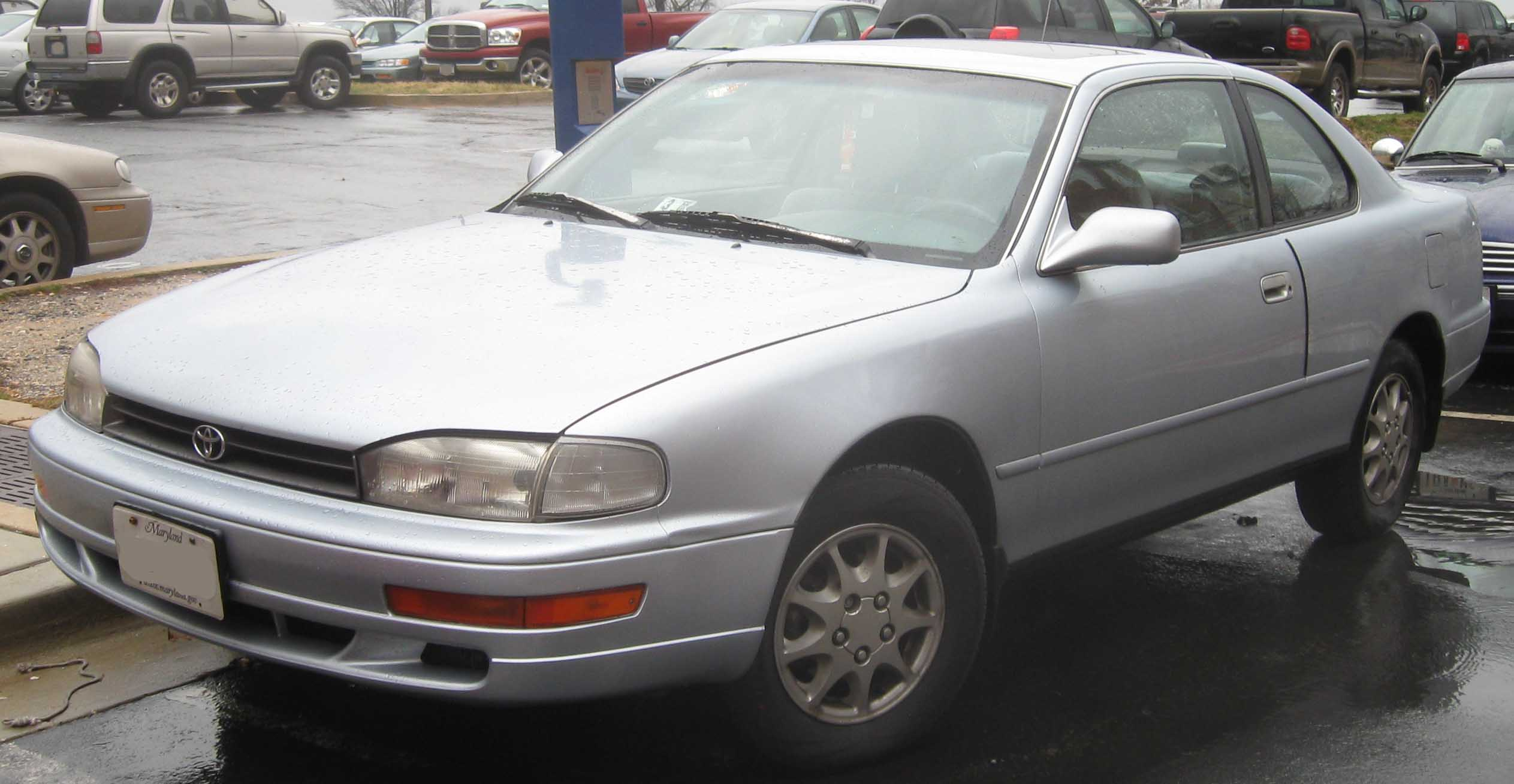 Toyota Camry photographed in College Park, Maryland, USA.